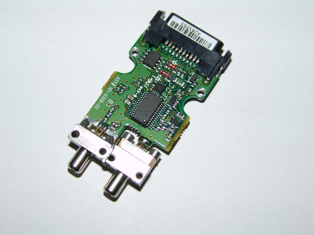 A opened GBIC of the Manufacter Finisar (P/N: FTR-8519P-5A)